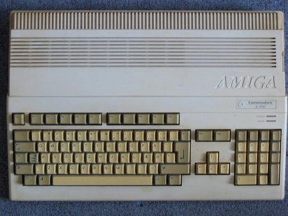 A500 (Amiga). (Note the badge on this version (reading "Commodore A-500"), which is similar to the one that appeared on the later "A-500 Plus" rather than the plain Commodore logo found on most A-500s.